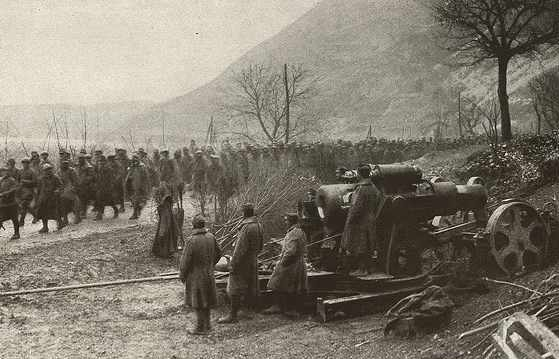 Austro-Hungarian 30.5 cm artillery and Rumanian prisoners